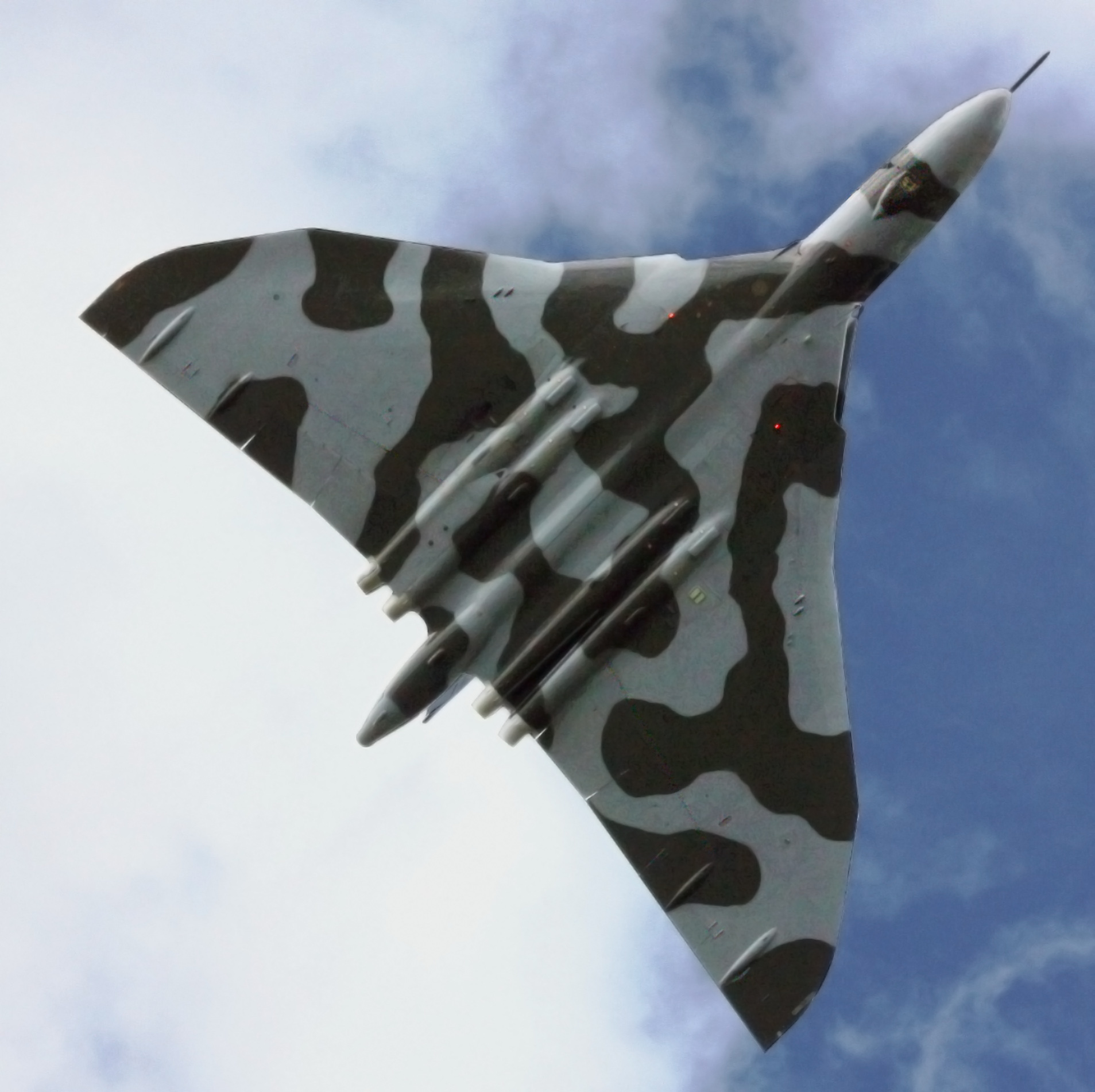 Avro Vulcan XH558, G-VLCN, flies over my head at RAF Cosford on the Saturday prior to the 2009 Cosford Airshow.